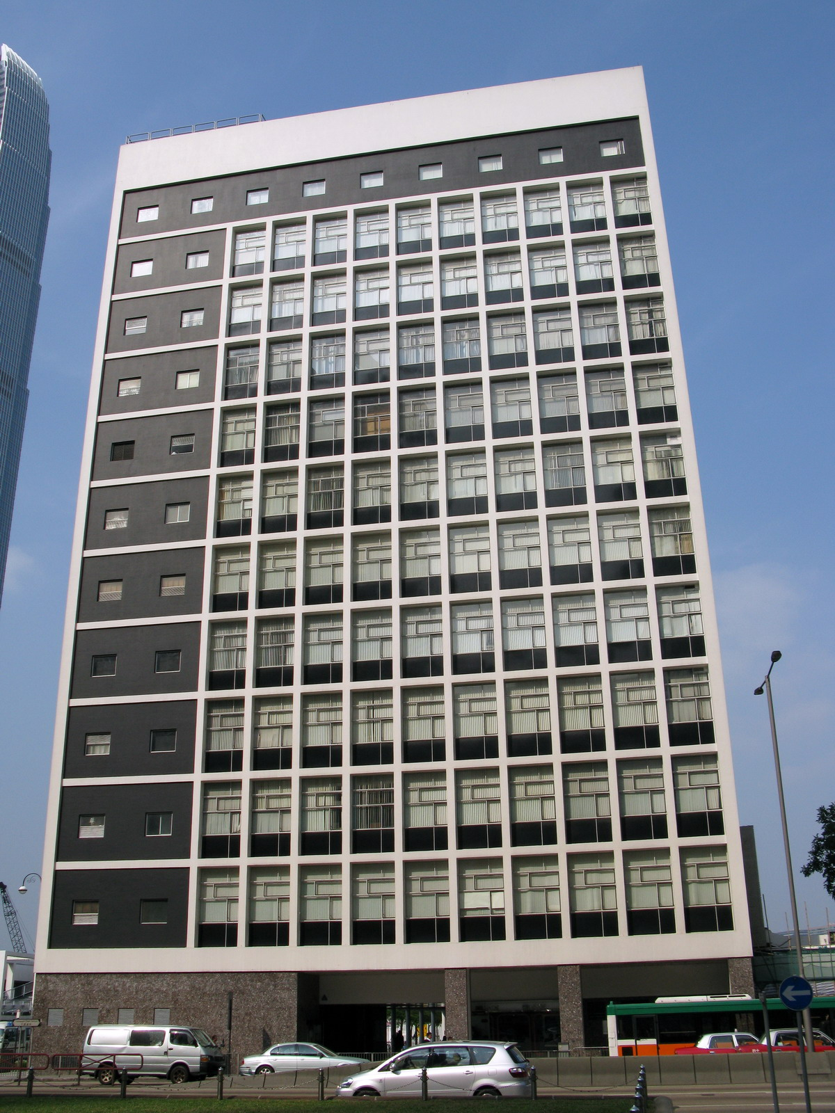 香港大會堂高座 Hong Kong City Hall High Block